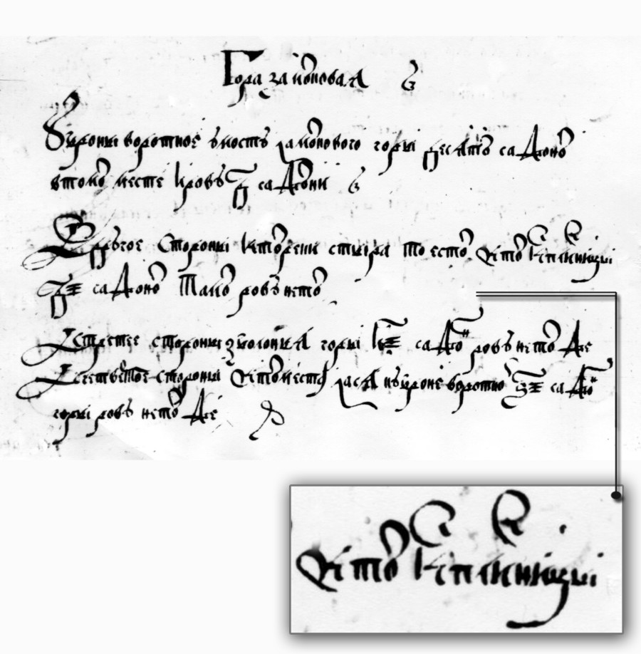 Part of 1552 revision of Lutsk Castle